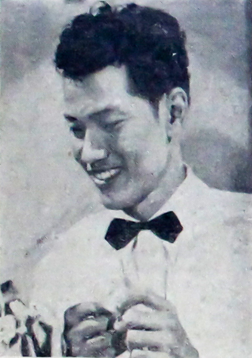 P. Ramlee in a promotional still.